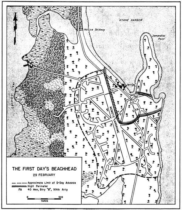 First day's beachhead on Los Negros, 29 February 1944